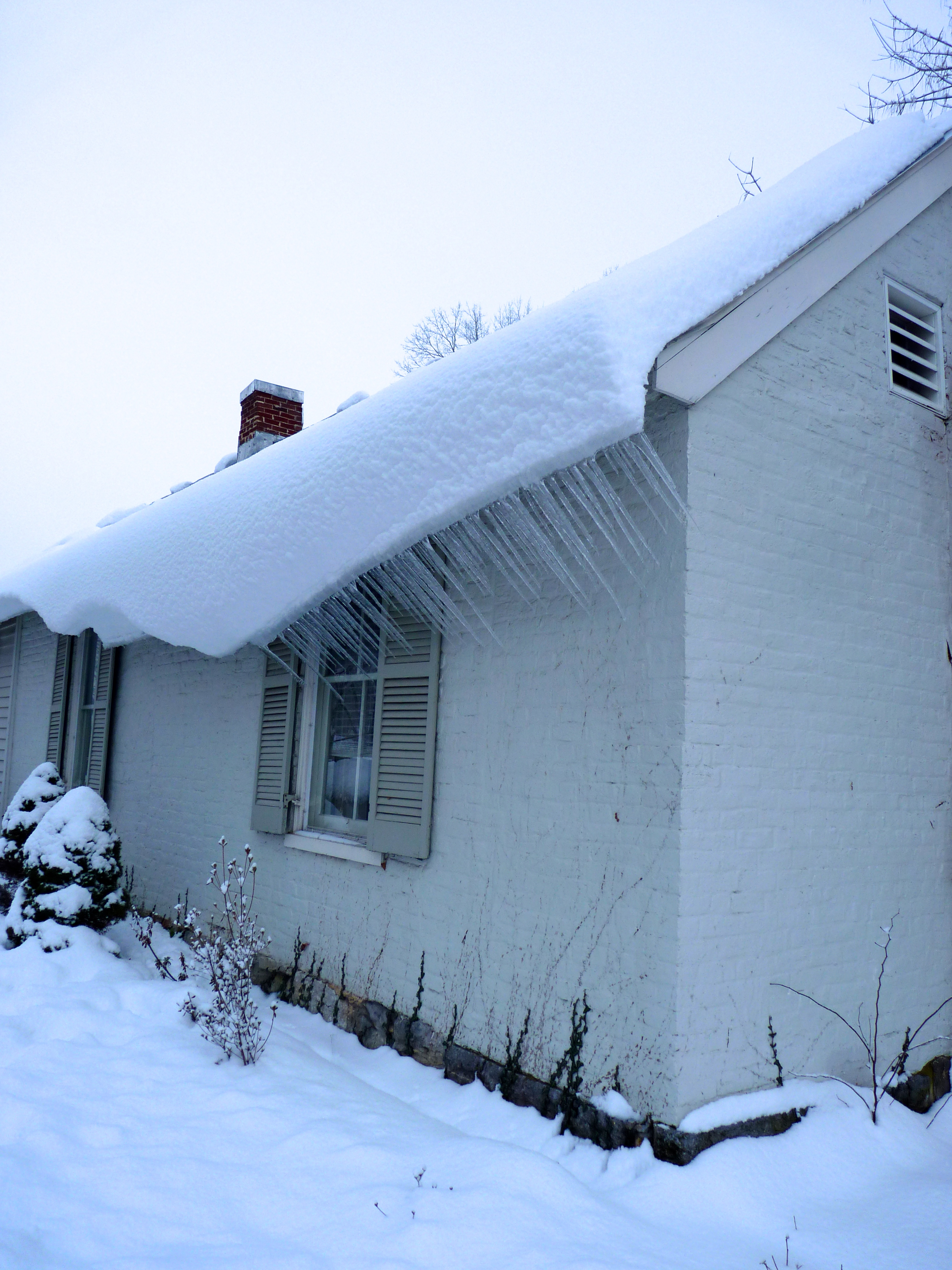 Lexington and Covington Turnpike Toll House weathering an early spring snow storm in 2014.